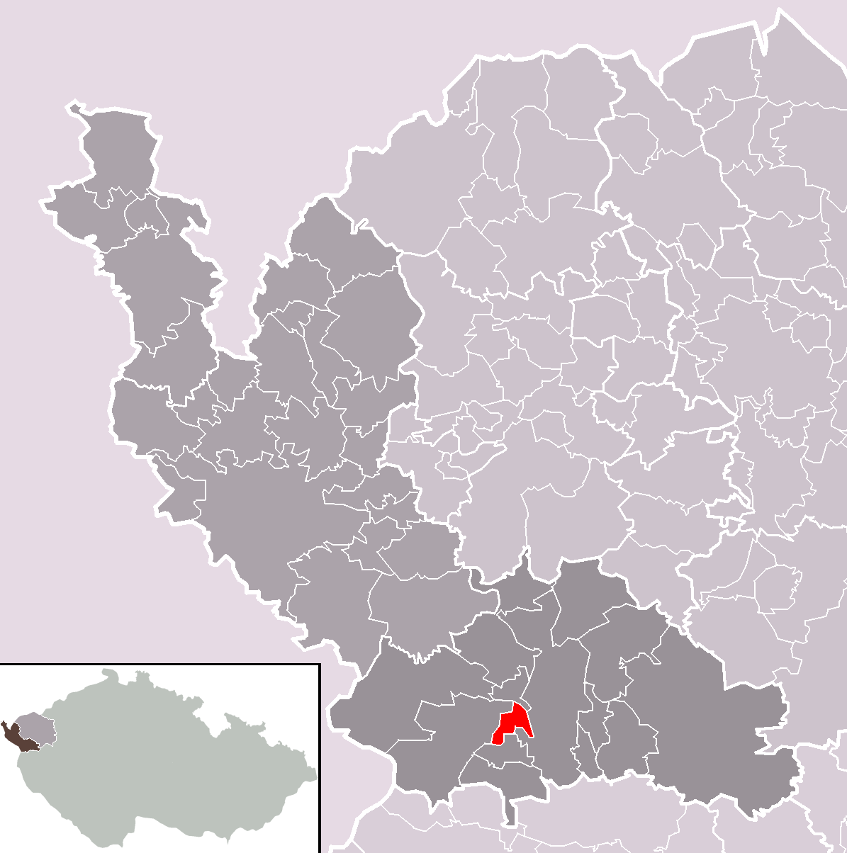 Location of Velká Hleďsebe municipality within Cheb District and administrative area of Mariánské Lázně as a Municipality with Extended Competence.